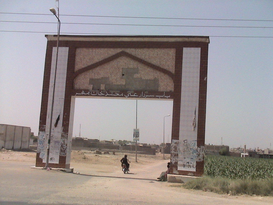 Sardar Ali Muhammad Mahar Gate, Ghotki